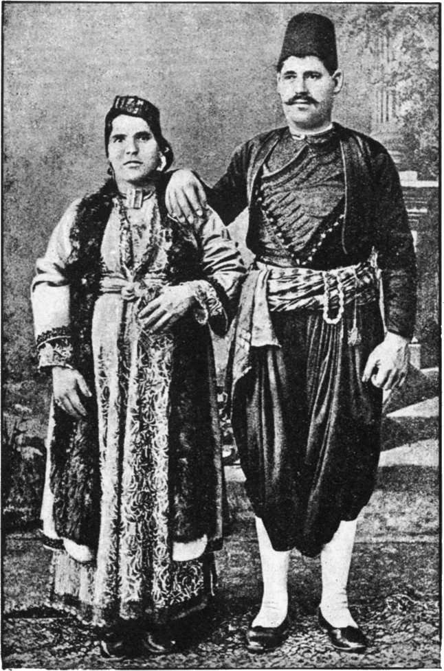 Turkish Jews. Late-Ottoman era